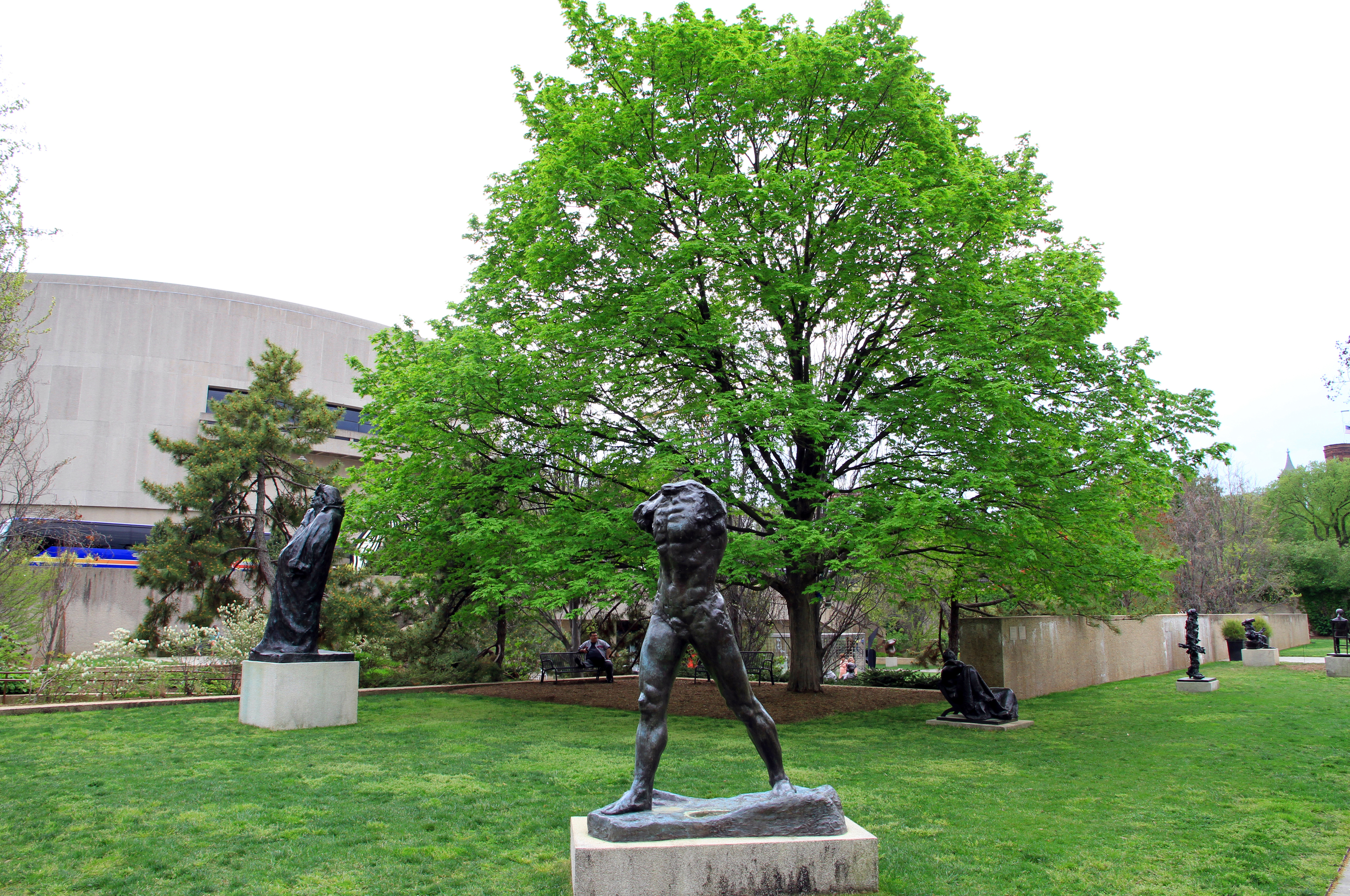 Hirshhorn Museum & Sculpture Garden